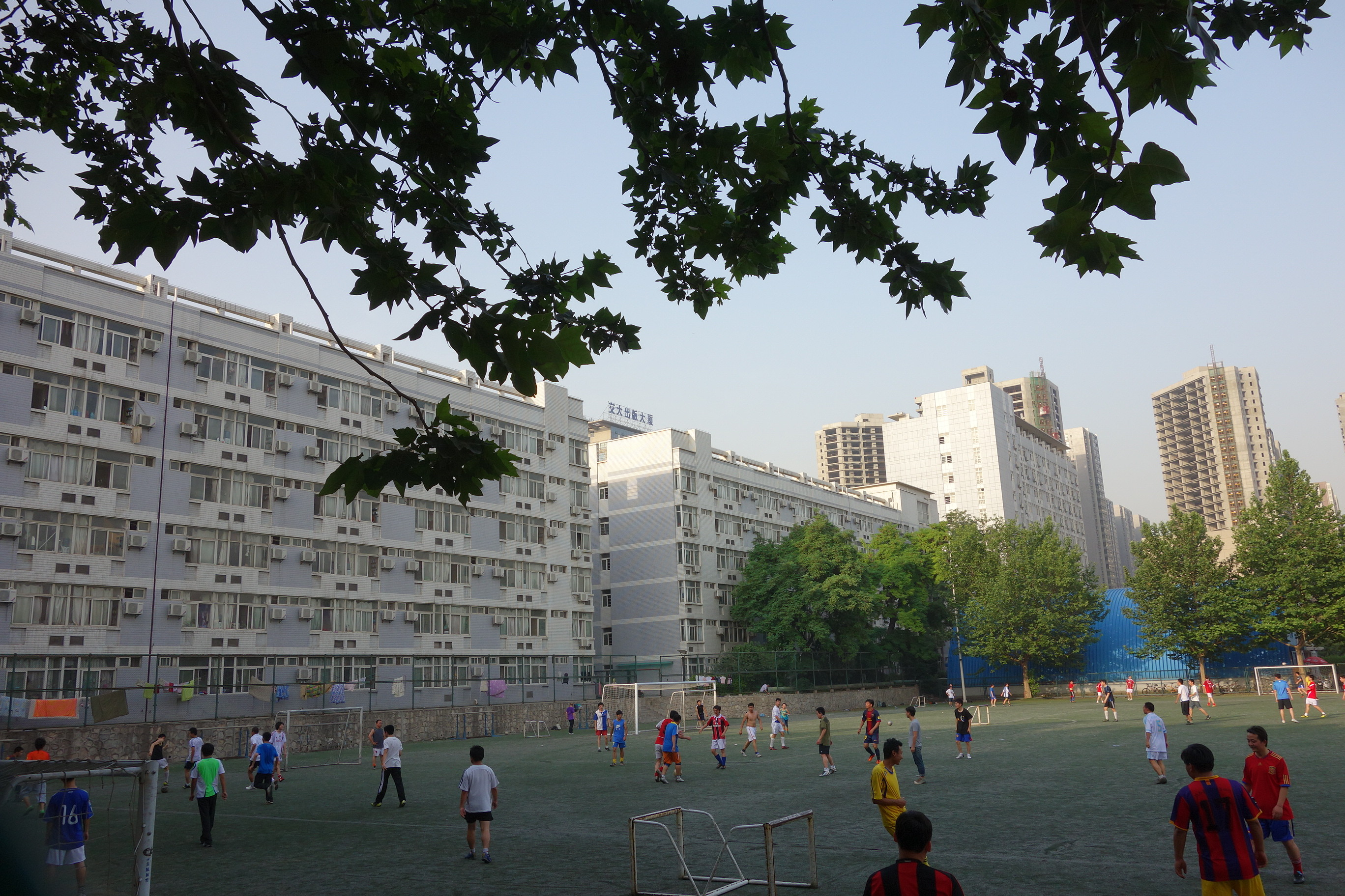 Dorm buildings of Nanyang College, Xi'an Jiaotong University.中文（中国大陆）: 西安交通大学南洋书院的宿舍楼群，从左到右分别为「东 7」（女生宿舍楼）、「东 8」和「东 9」（男生宿舍楼）。